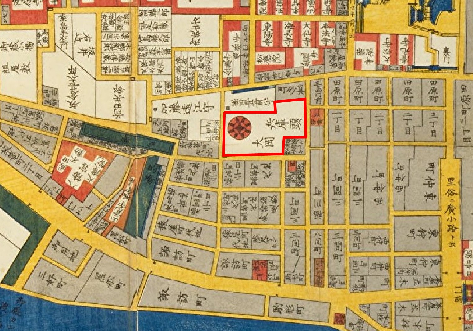 Residence of Ôoka clan at Edo